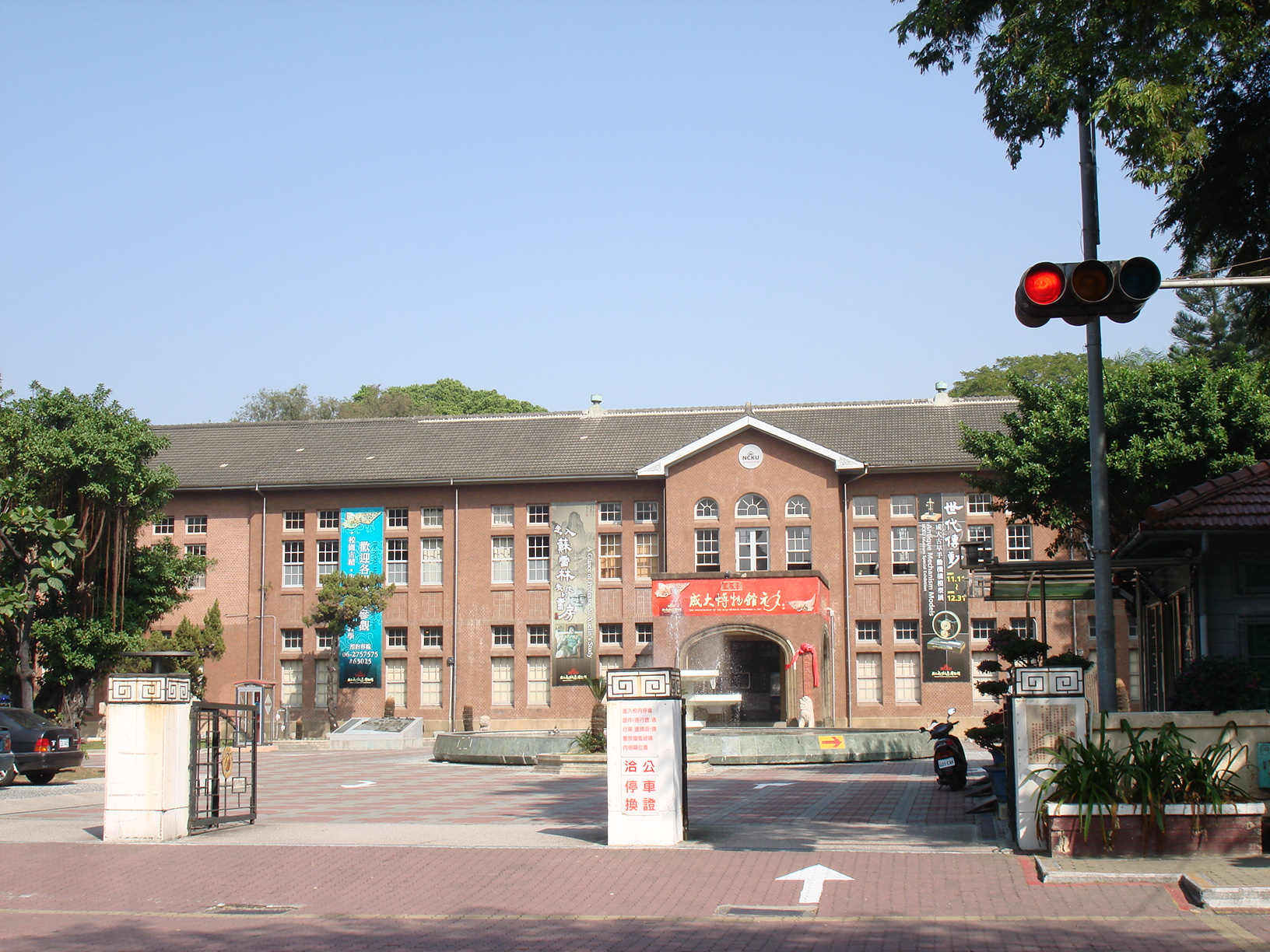 Cheng-kong region of NCKU